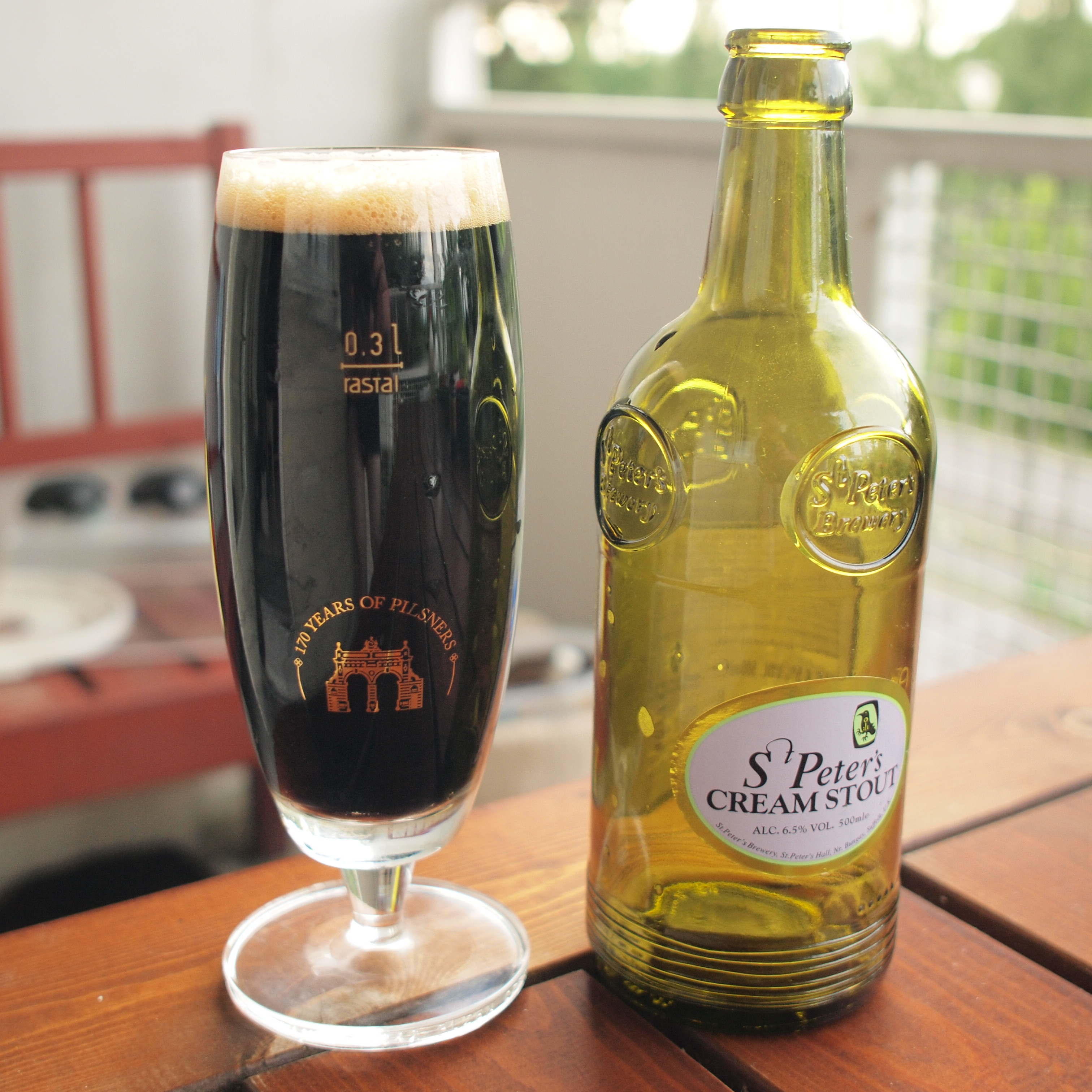 Bottle of St. Peter's Cream Stout poured into something that's definitely not a stout glass.